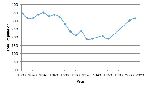 Population time series showing data for Tur Langton